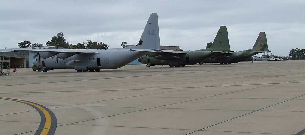 Three Royal Australian Air Force C-130 Hercules at RAAF Base Richmond